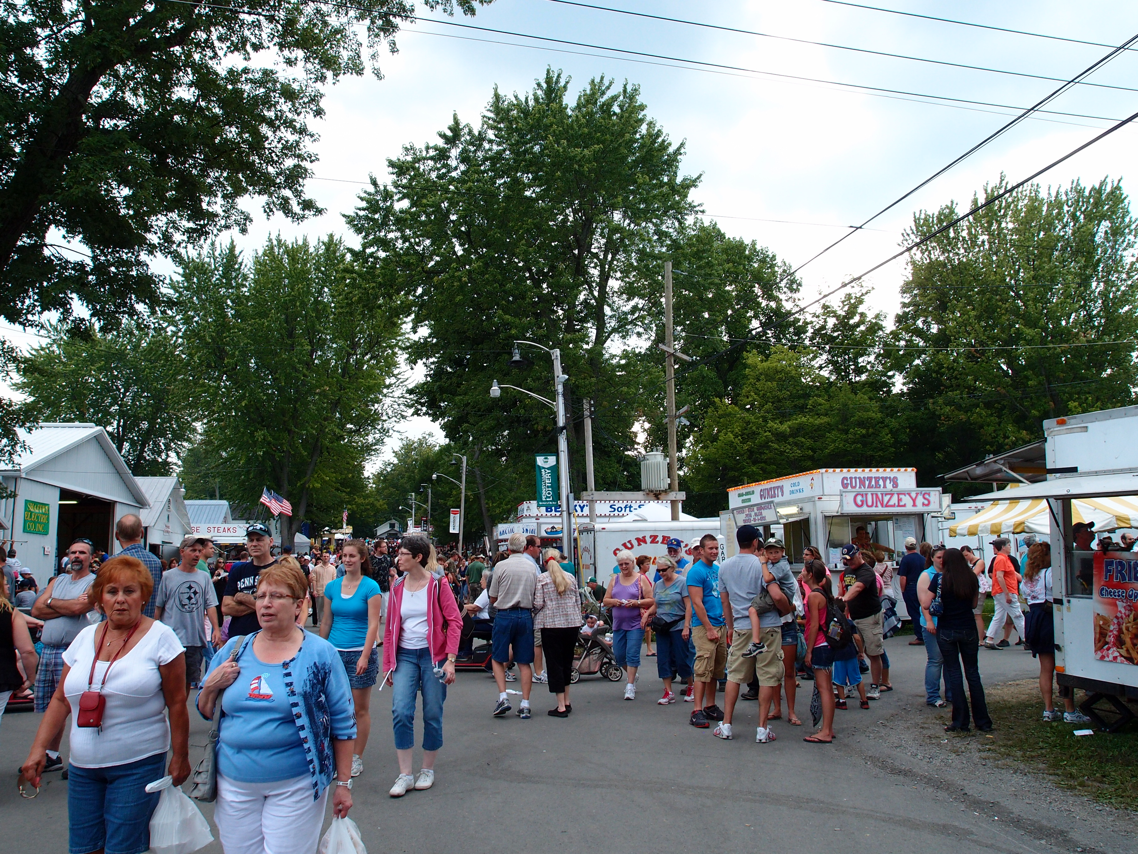 Pedestrians at the Centre County Grange Fair